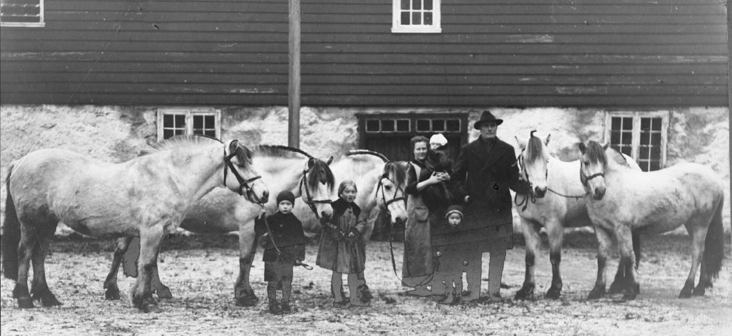 Norwegian Fjords at Rosendal Avlsgard, Norway, 1922. Author unknown